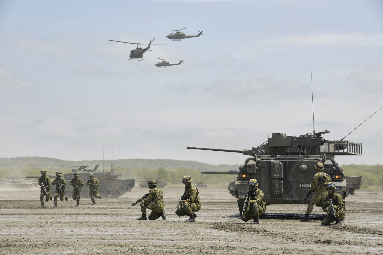 Title 25.06.02 ７Ｄ・第７師団創隊５８周年及び東千歳駐屯地創立５９周年記念行事_DSC1099.jpg Album Events and Public Relations (イベント・行事・広報活動等) 第７師団創隊５８周年及び東千歳駐屯地創立５９周年記念行事・訓練展示